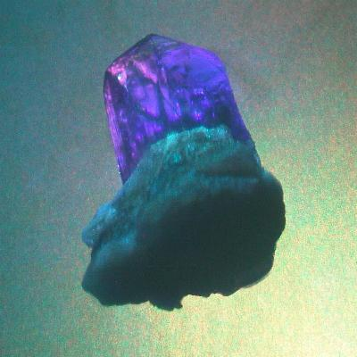 Hologram of a Trichroic Tanzanite Specimen